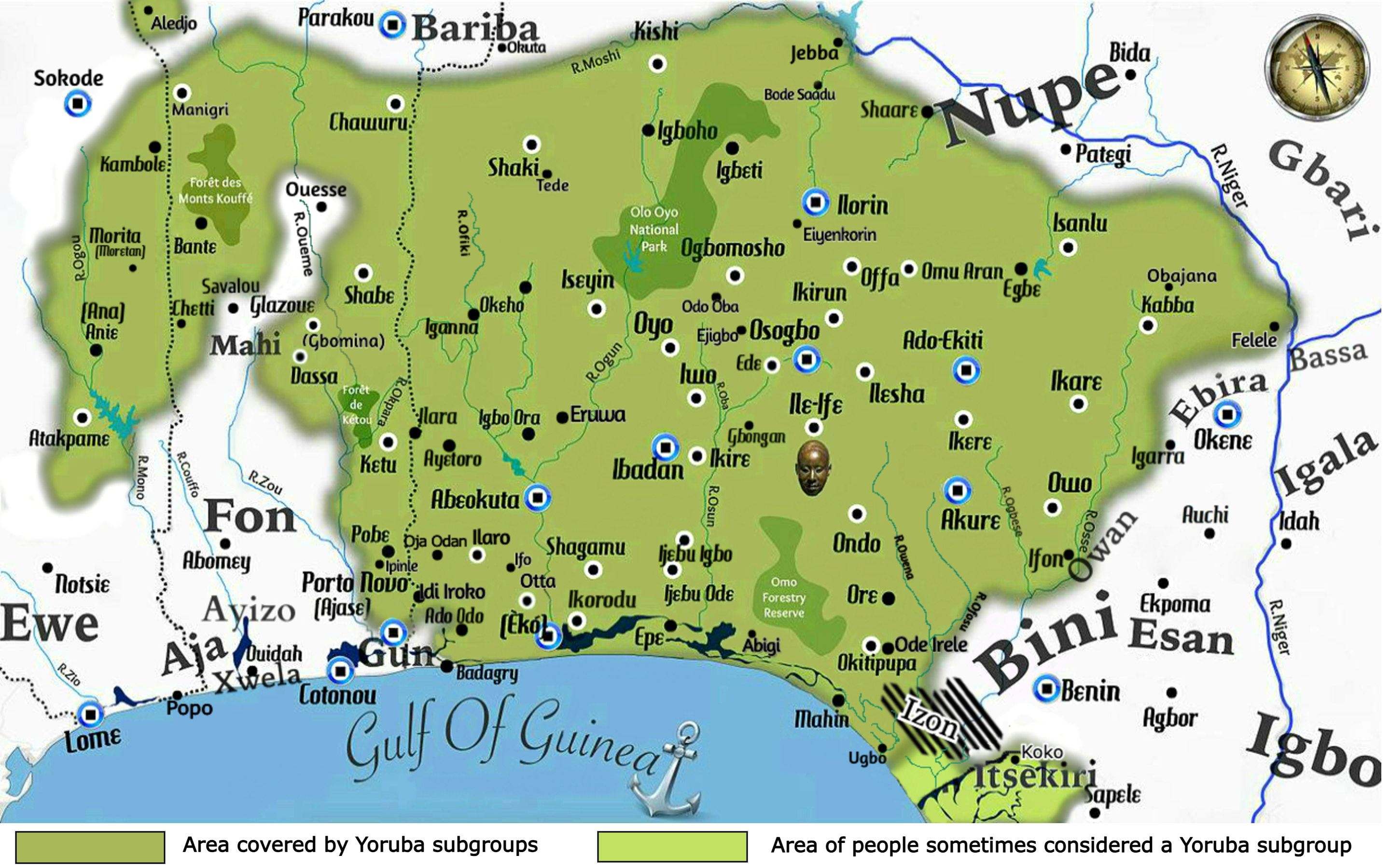 Map of the Yoruba cultural area of West Africa, showing some settlements.